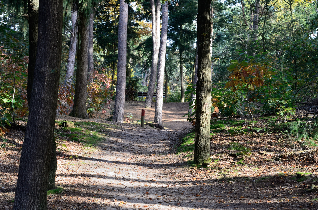 bench in the Zandbos (Sands Wood) on top of the sand dune - Autumn